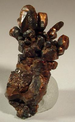 Copper Locality: Cliff mine, Phoenix, Keweenaw County, Michigan, USA (Locality at ) Size: thumbnail, 2.4 x 1.3 x 1.3 cm Copper (twinned) A very nice cluster of lustrous perfectly colored Copper crystals with the largest crystal being twinned. Incredible old, antique patina and sharp form! 2.4 x 1.3 x 1.3 cm